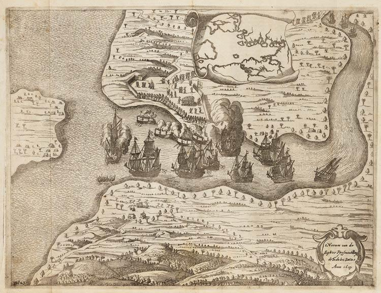 Capture of the sugar carrying ships in the Allhallows bay, 1627.